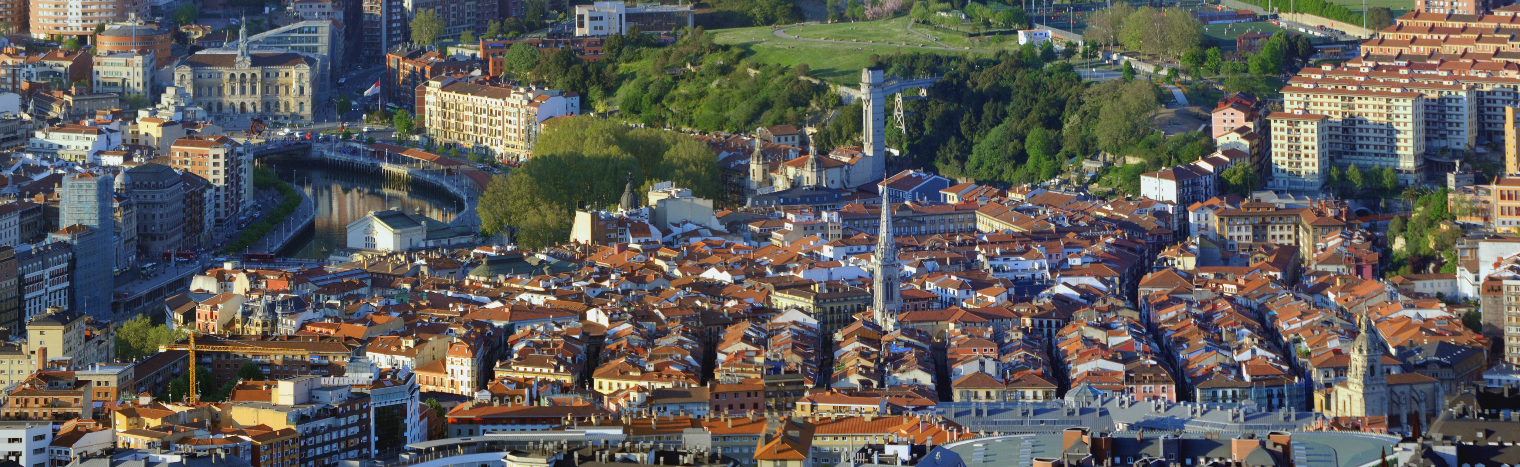 Bilbao Old Town. The seven historical streets that the district (Zazpikaleak, the seven streets) is named after, are clearly visible.